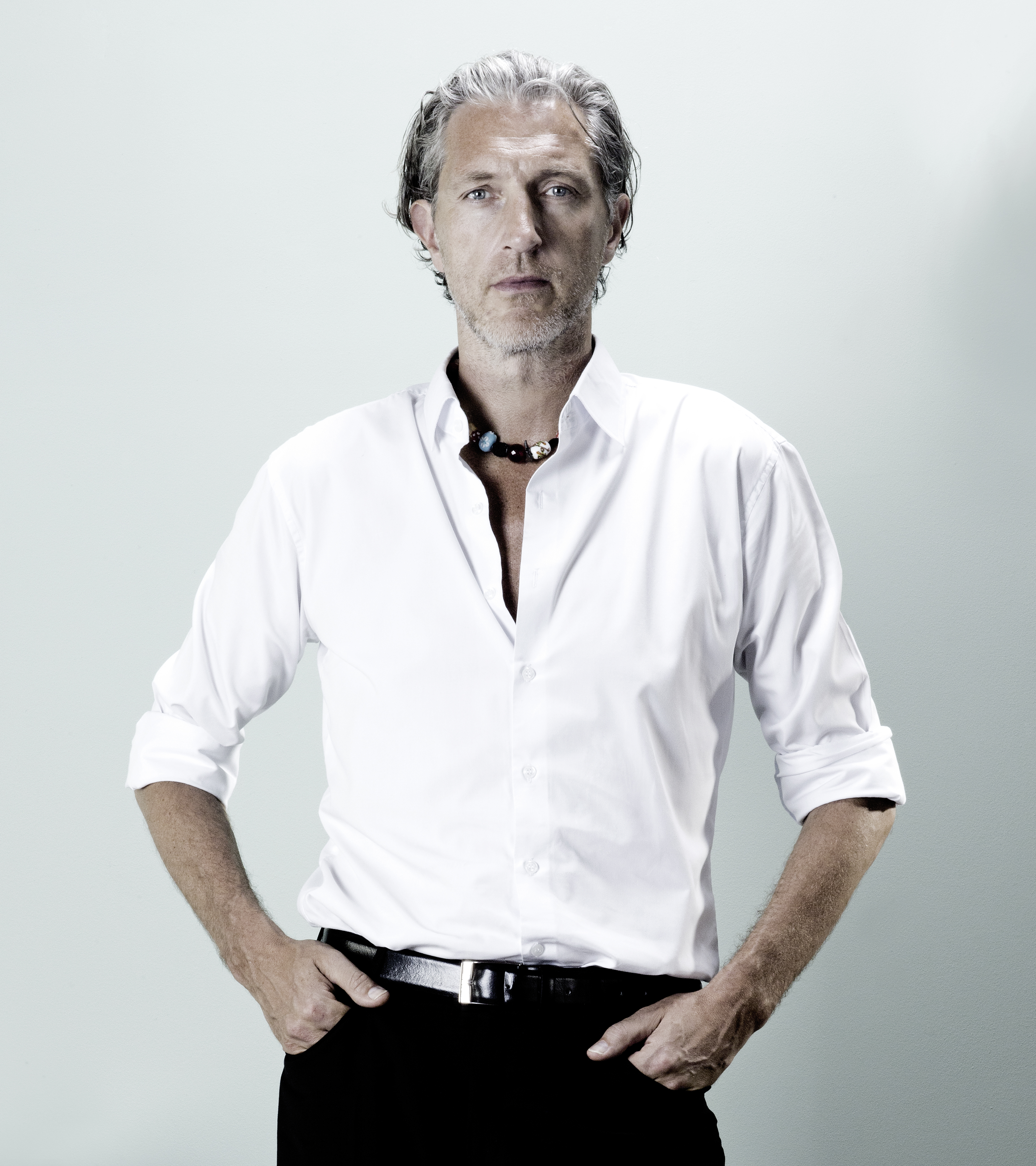 Marcel Wanders 2013